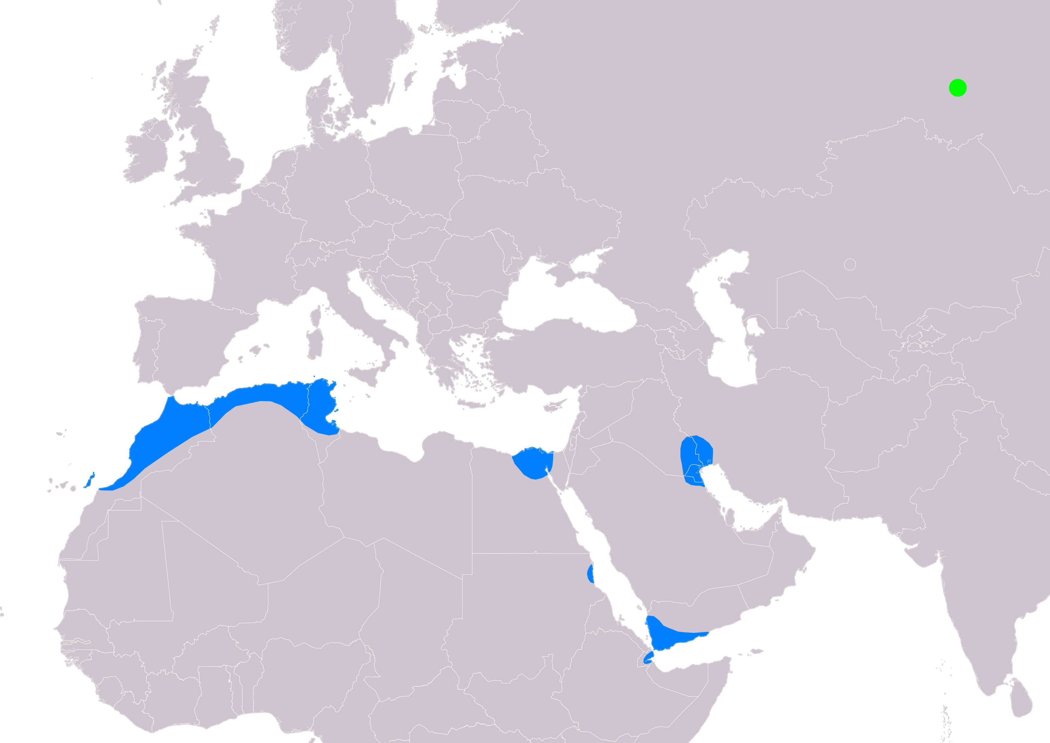 Distribution map of Slender-billed Curlew (Numenius tenuirostris) according to IUCN version 2019.3; key: Legend: Extant, breeding (#00FF00), Extant, non-breeding (#007FFF), Probably extinct (#FF8080)